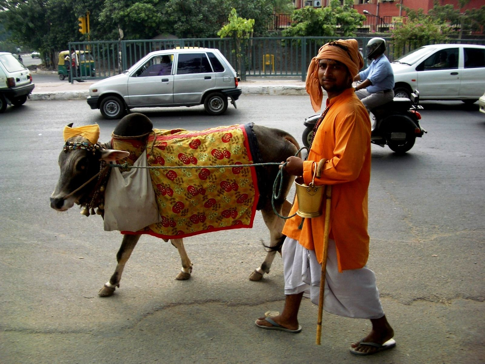 I took this photo on a trip to Delhi in 2004.